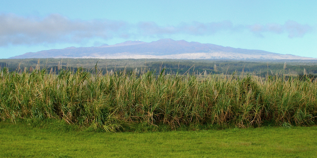 Hawaii, USA, Mauna Kea, from outskirts of Hilo